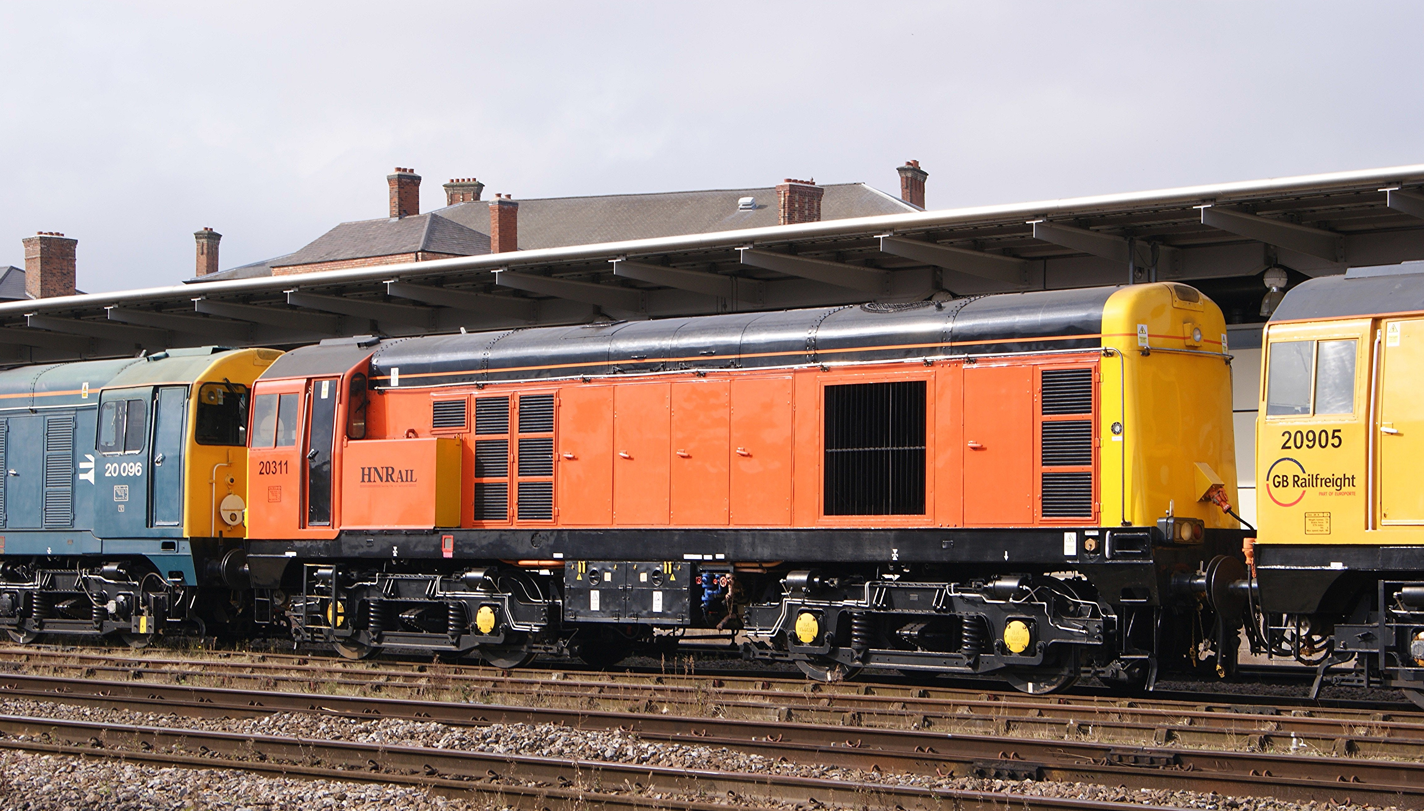 English Electric Class "20/3" 1,000 hp Bo-Bo No.No.20 311 (ex-No.20 102 'Class 20 Fifty'; ex-No.D8102) of HNRC in their own orange livery at Derby, 13 September 2014.